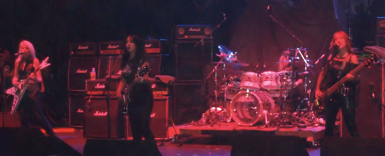 Girlschool live at Hammersmith Apollo 28/11/2009